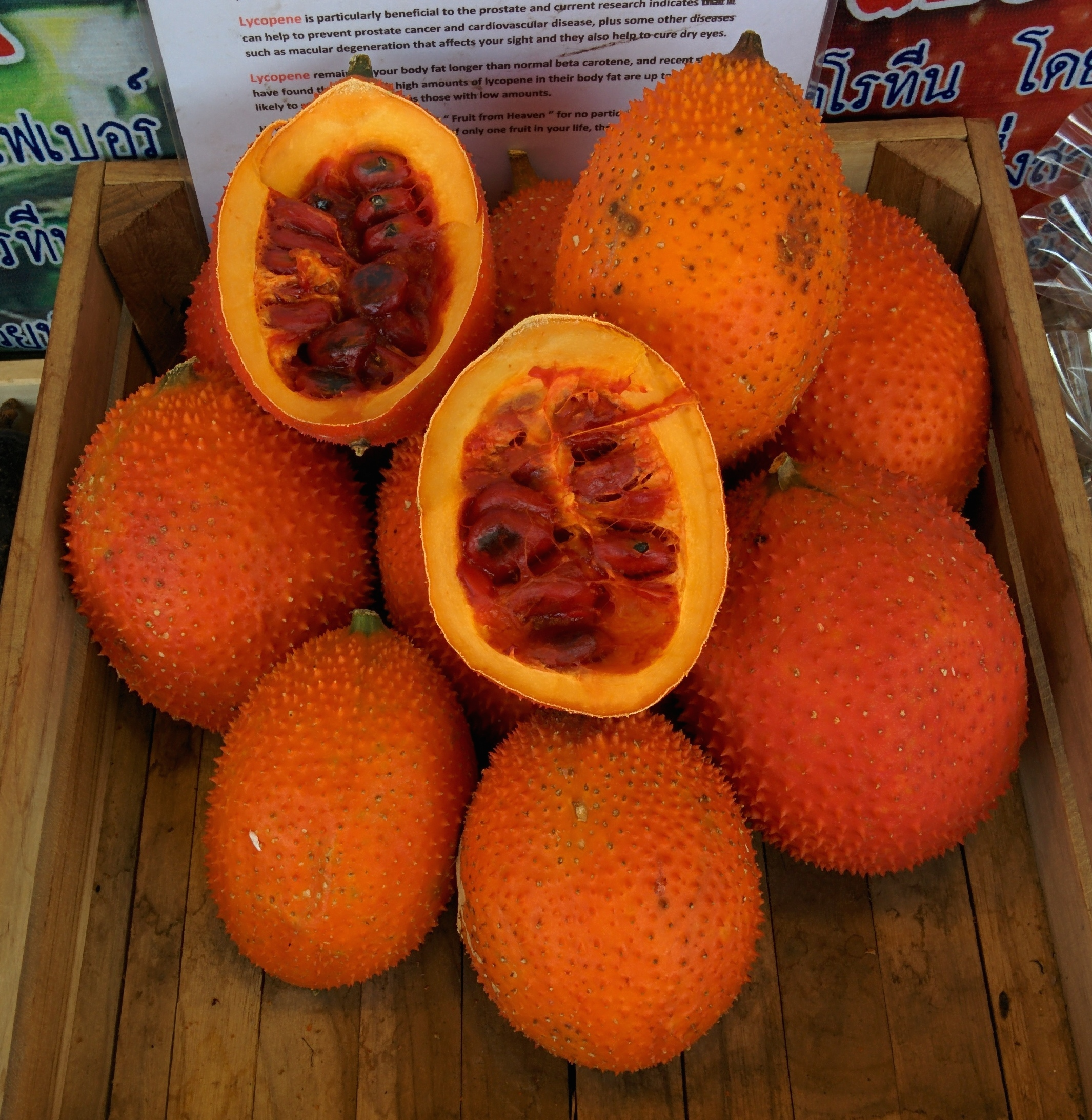 gac fruit/spiny bitter gourd/baby jackfruit (Momordica cochinchinensis)